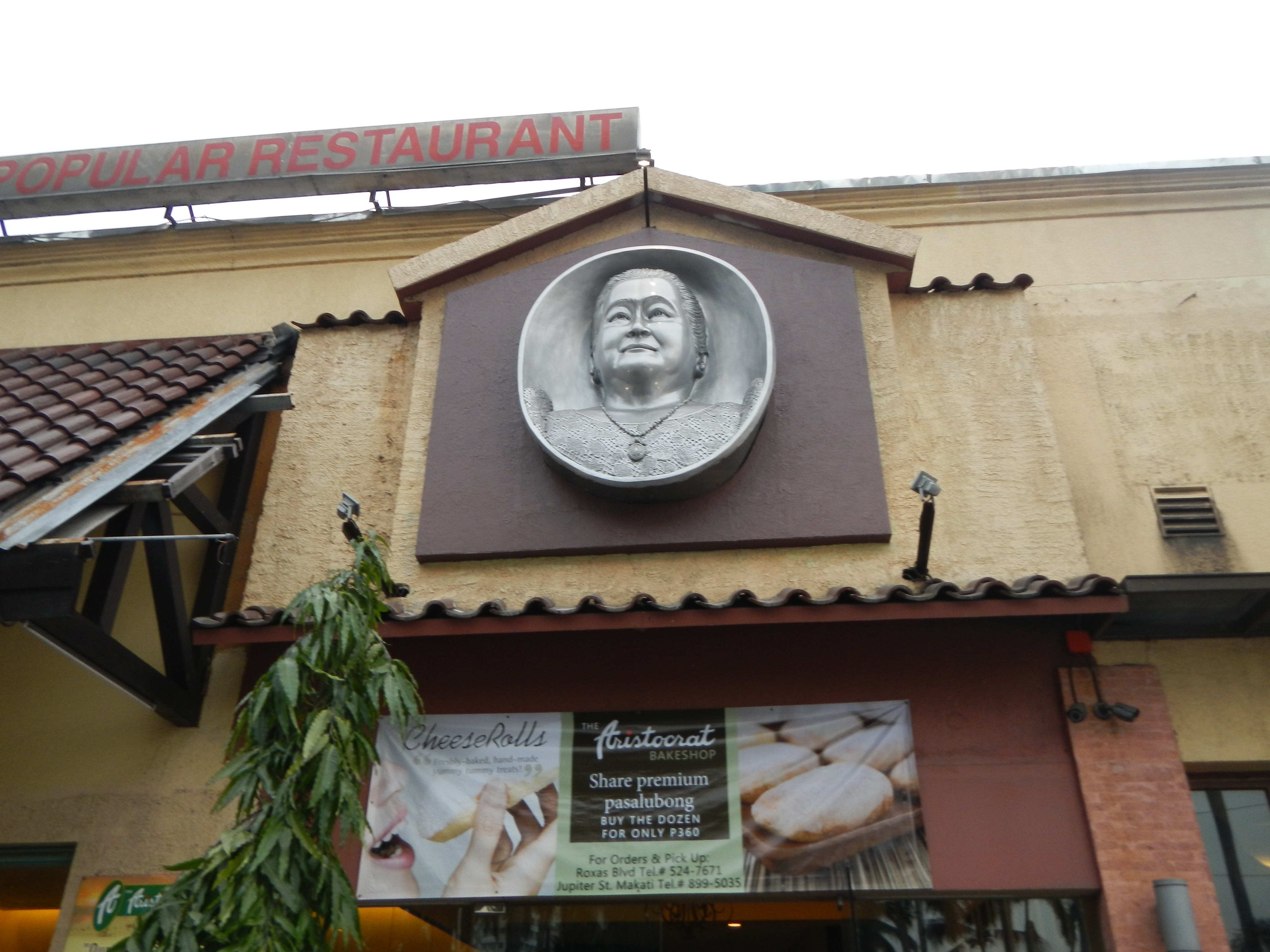 Upload Wizard photos of - the - a) Plaza Rajah Sulayman [1] [2] a public square in Malate, Manila. It is bounded by Roxas Boulevard [3] to the west, San Andres Street to the south and Remedios Street to the north fronts the Malate Church,[4] this area was reconstructed after the strong typhoon named after Rajah Sulayman [5] with the ASEAN City of Culture Marker in the center. This is a photo of Cultural Heritage Monument in the Philippines number PH-XX-XXXX and b) Engracia Cruz-Reyes[6] Filipino chef and entrepreneur active promoter of Filipino cuisine, founded the The Aristocrat Restaurant since 1936 married Alexander Reyes, who in 1948 would be appointed as an Associate Justice of the Philippine Supreme Court of the Philippines part of the List of historical markers in the Philippines [7].